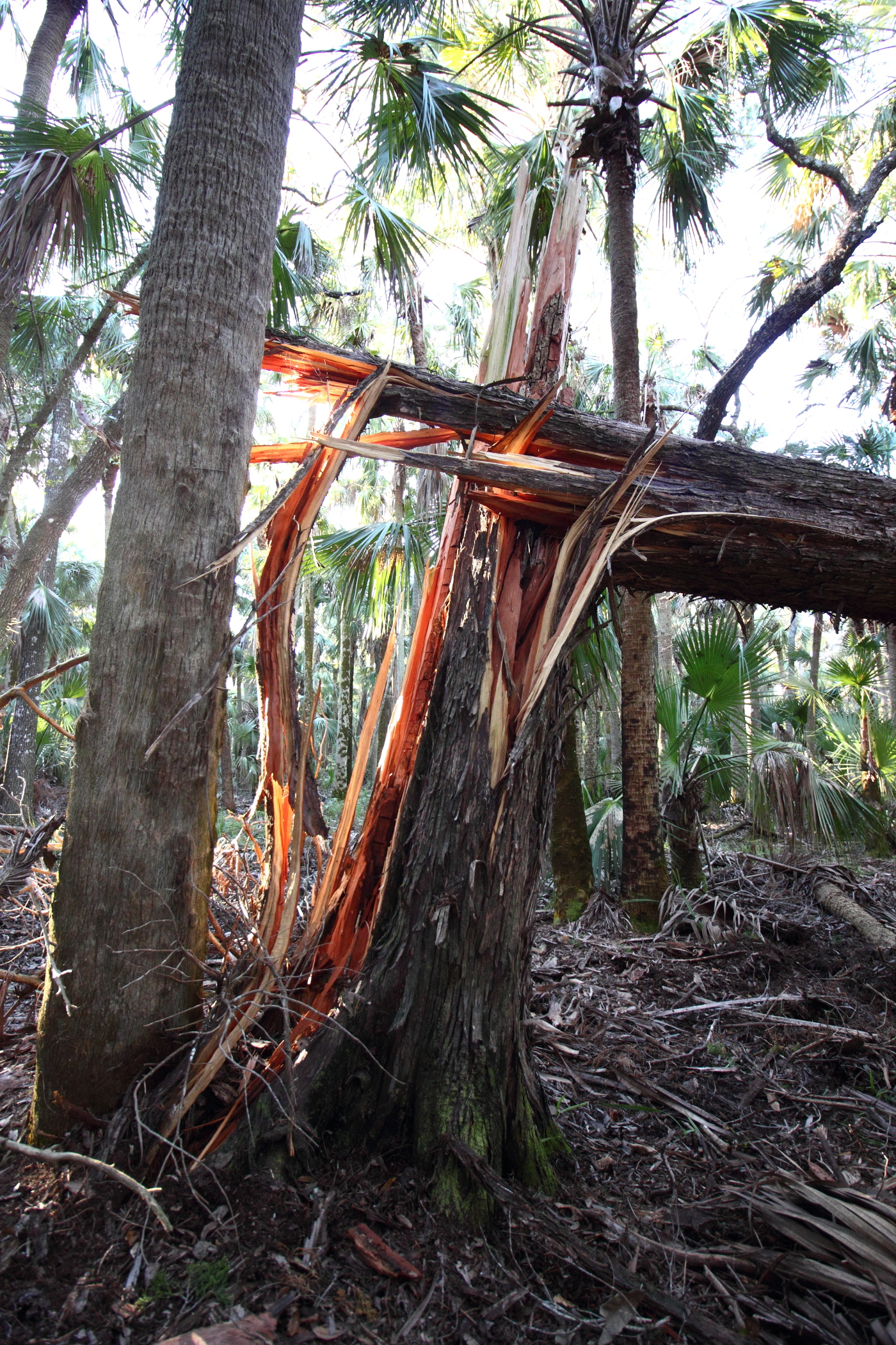 Juniperus virginiana var. silicicola windthrown by hurricane Irma (2017).